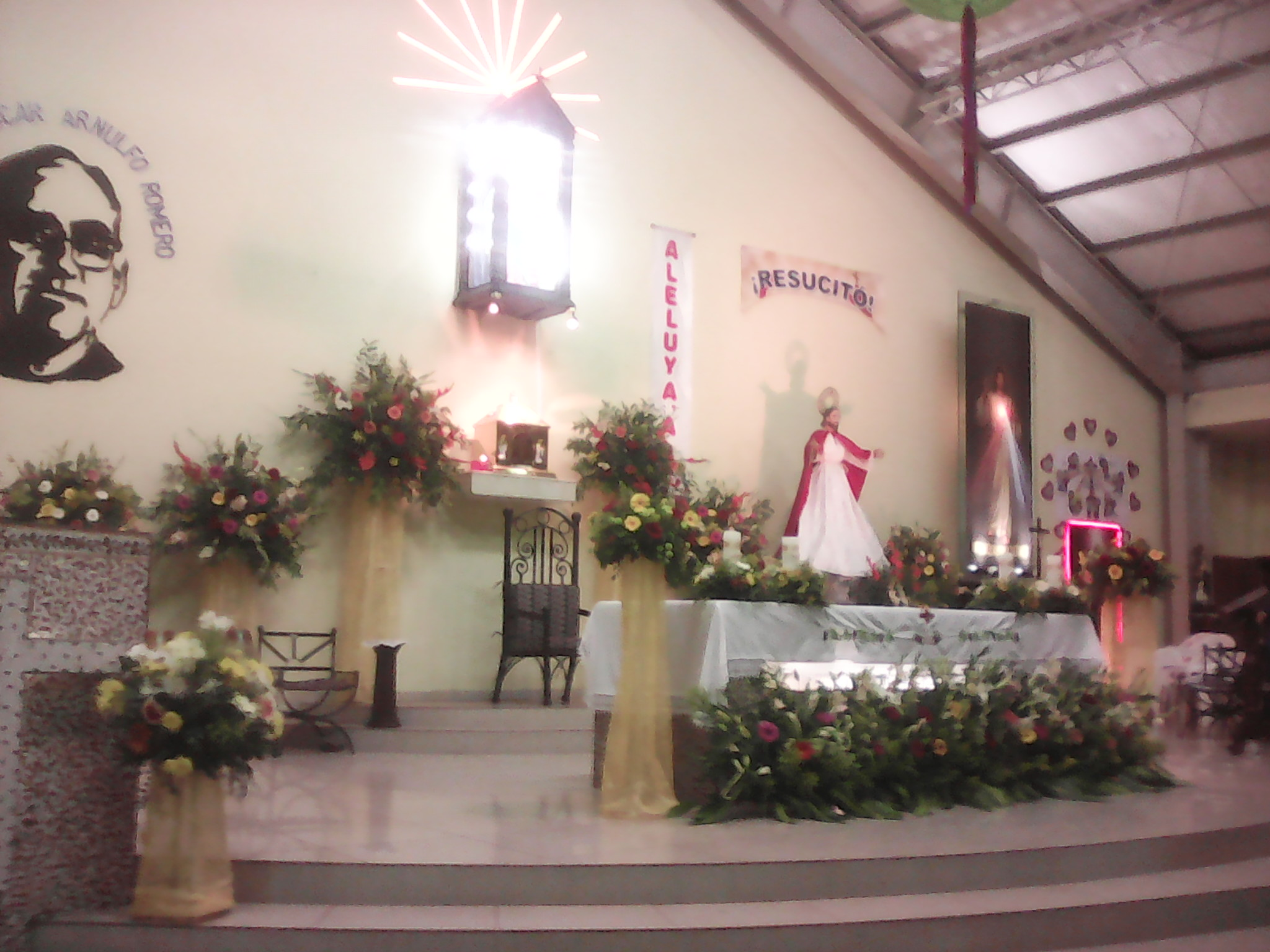 Parroquia nuestra señora del pilar de Zaragoza